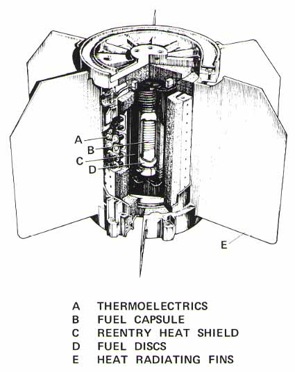 Cutdrawing of an SNAP 19 RTG, that are useed for Pioneer 10 and 11